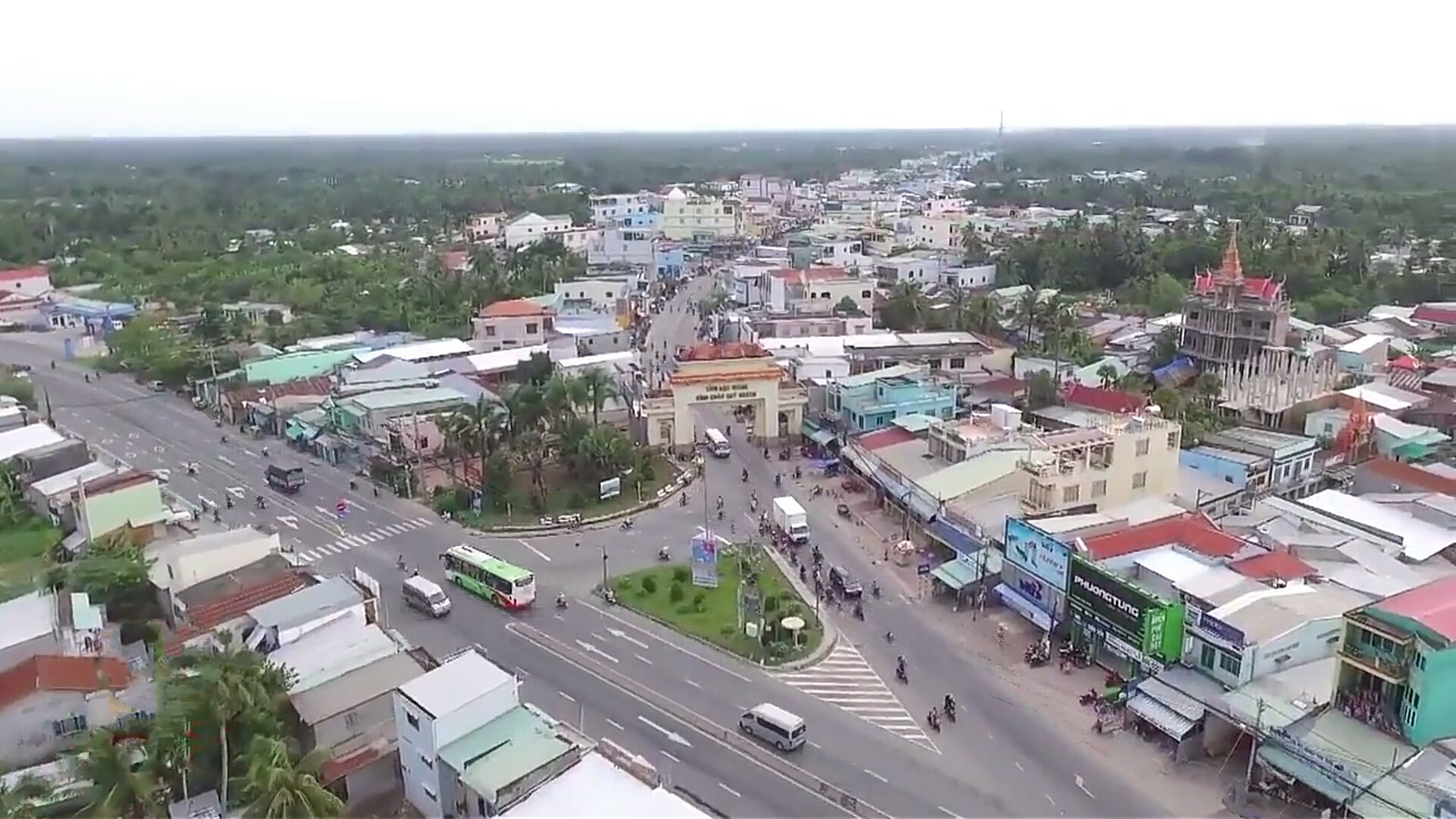 This is Cai Tac Town in Hau Giang province